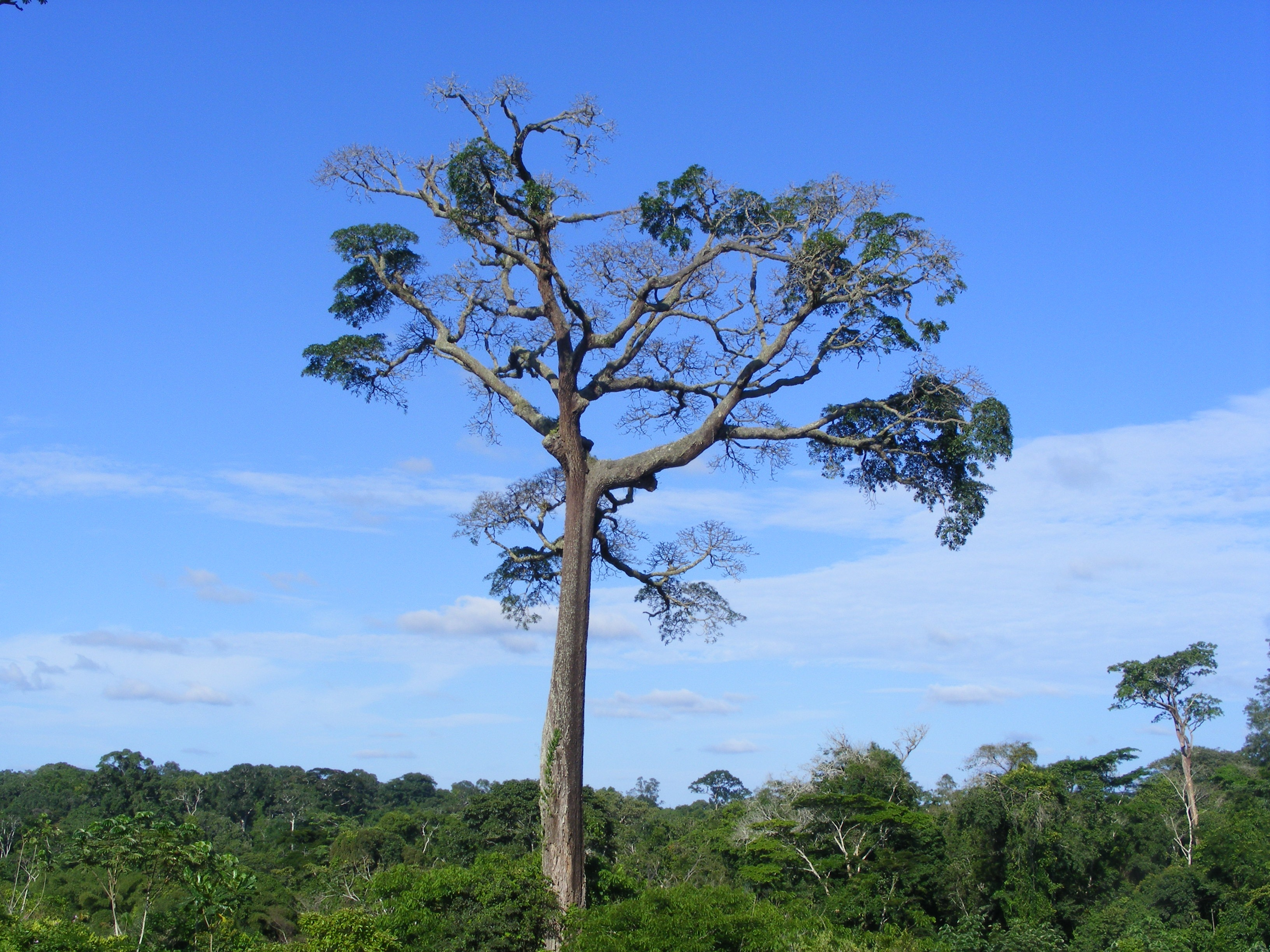 Image of an african pearwood standing in the rainforest.